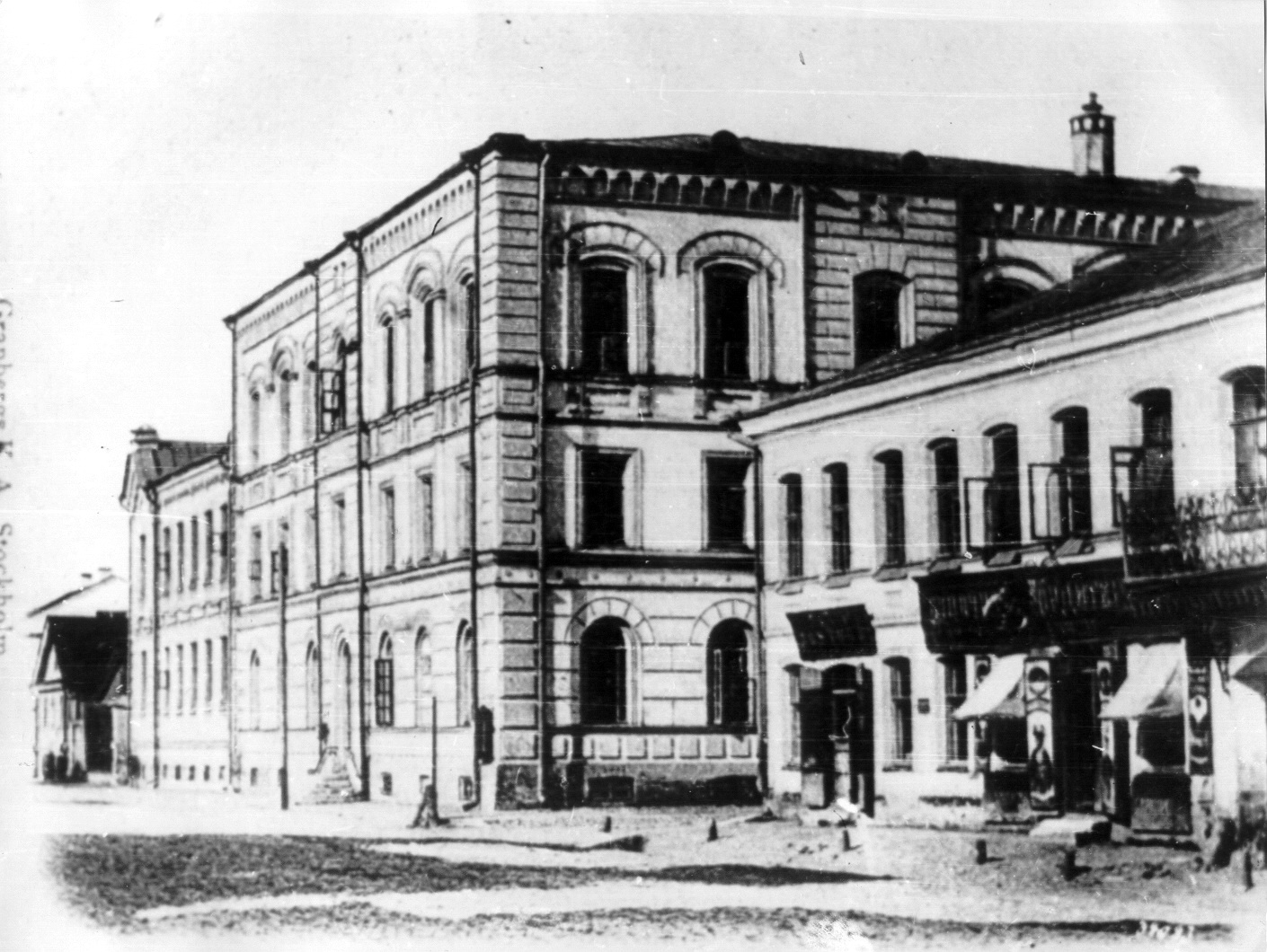 The Tver cavalry school. The house of Klokachev.